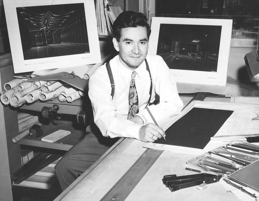 W.A. Sarmiento, seen in 1958 at the Bank Building and Equipment Corp. in St. Louis, designed more than 100 banks, helping them shed the typically somber image of buildings in the industry. (Family photo)